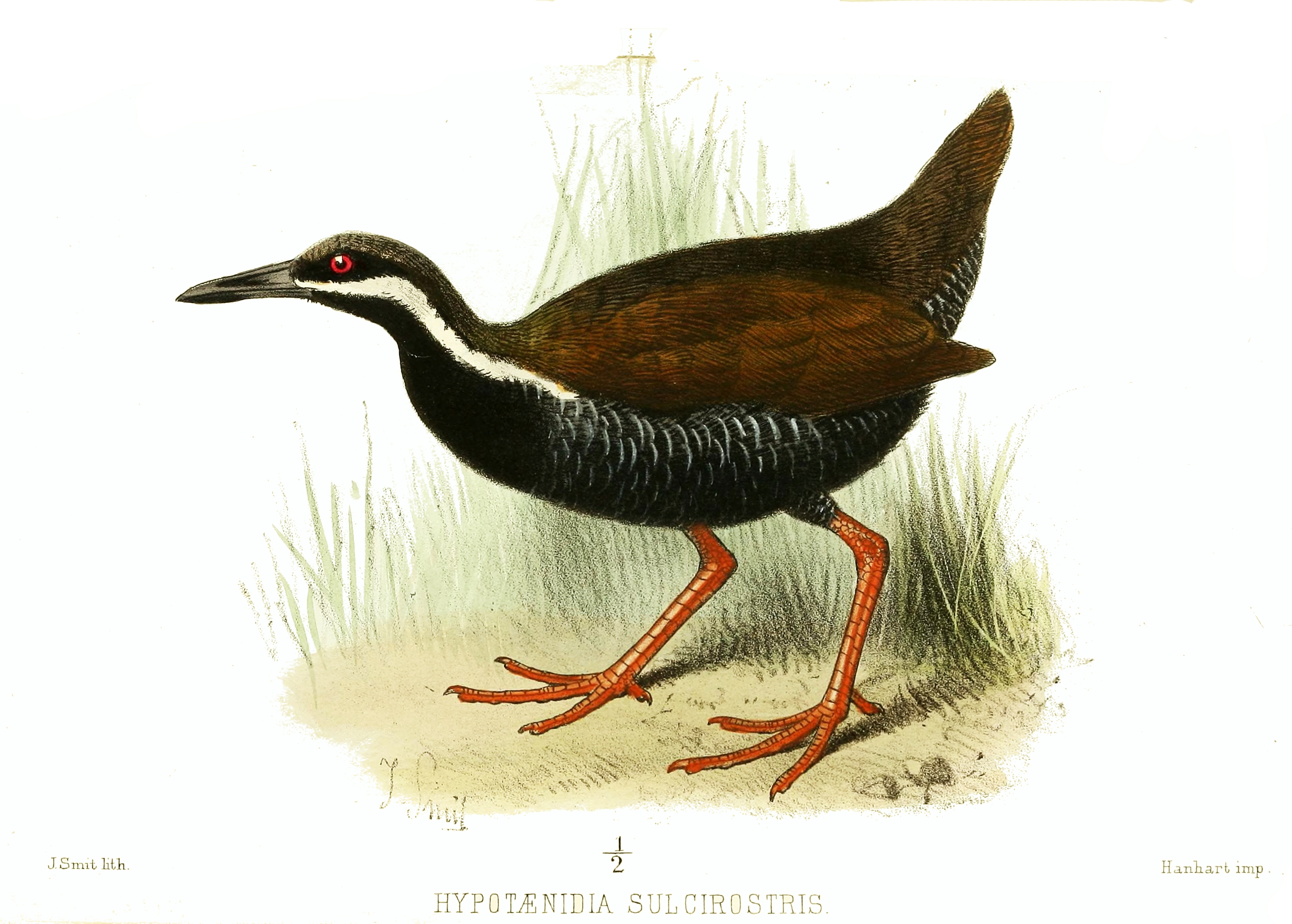 « Hypotaenidia sulcirostris » = Gallirallus torquatus (Barred Rail)